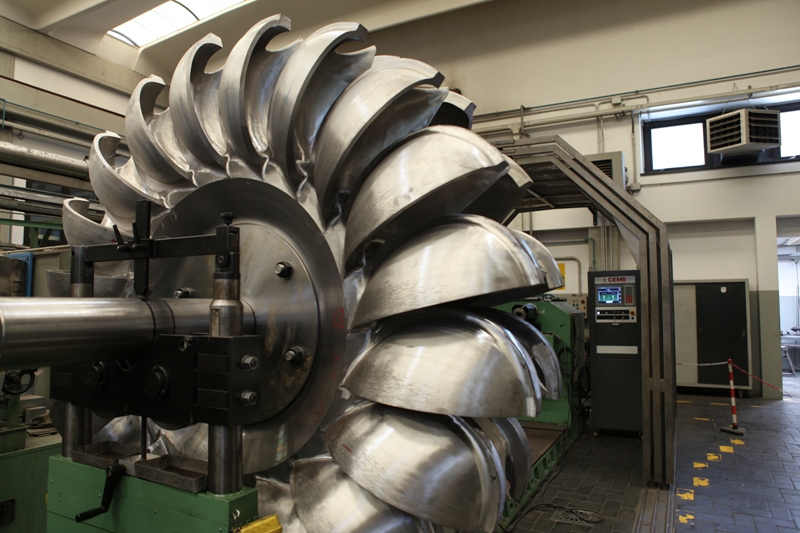 turbina pelton